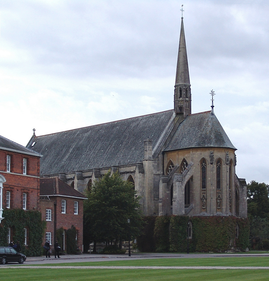 SS Michael & All Angels Chapel, Marlborough College, Wiltshire